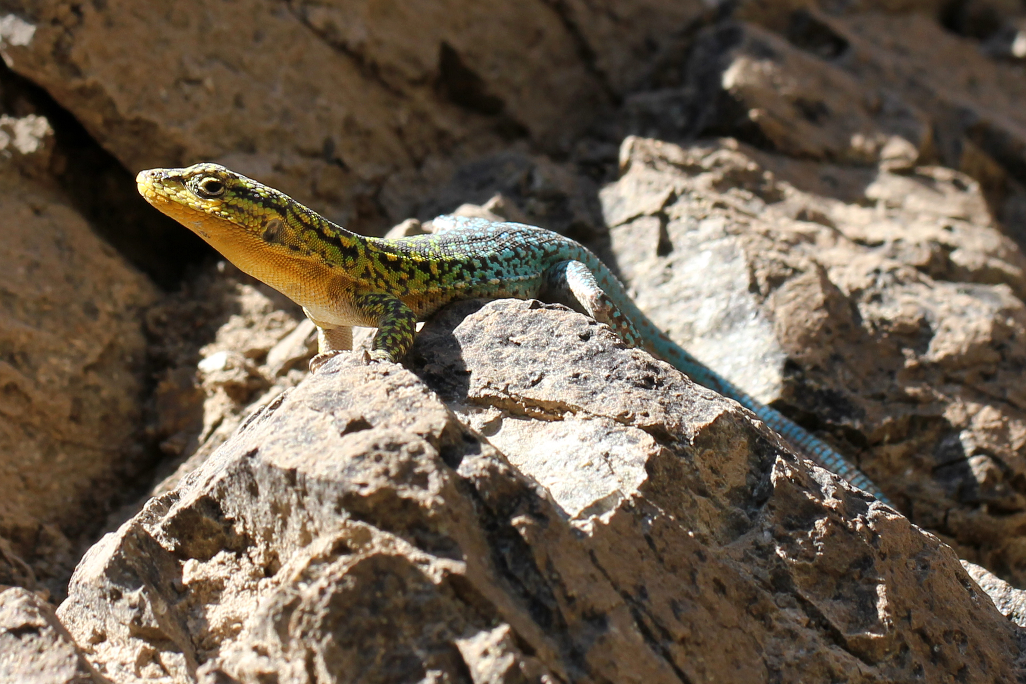 Liolaemus tenuis in Maipo Canyon, Chile (near San Alfonso)